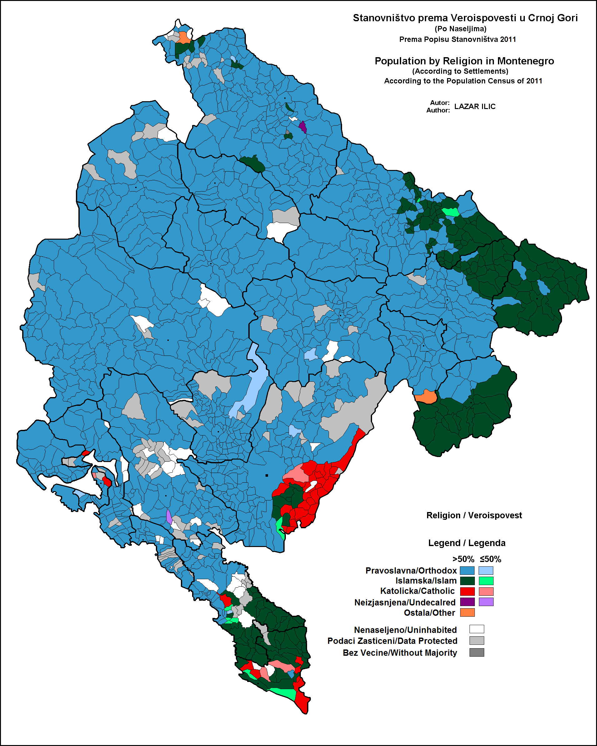 This is a religious map of Montenegro. It is based off of the 2011 census data which was released today.